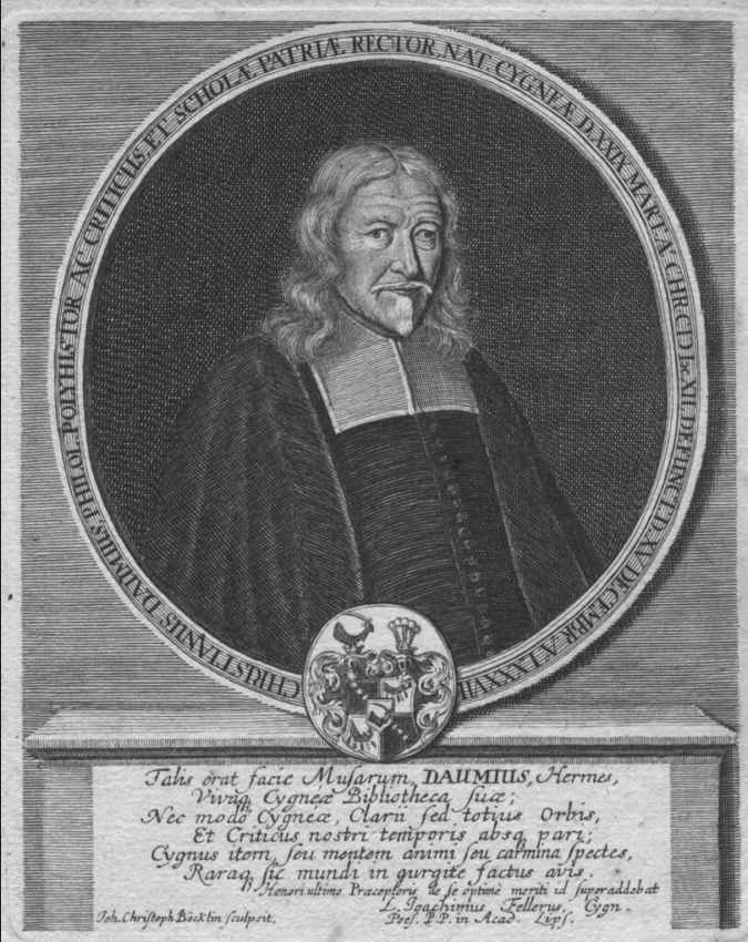 Portrait of Christian Daum (1612-1687), rector of the Latin School in Zwickau